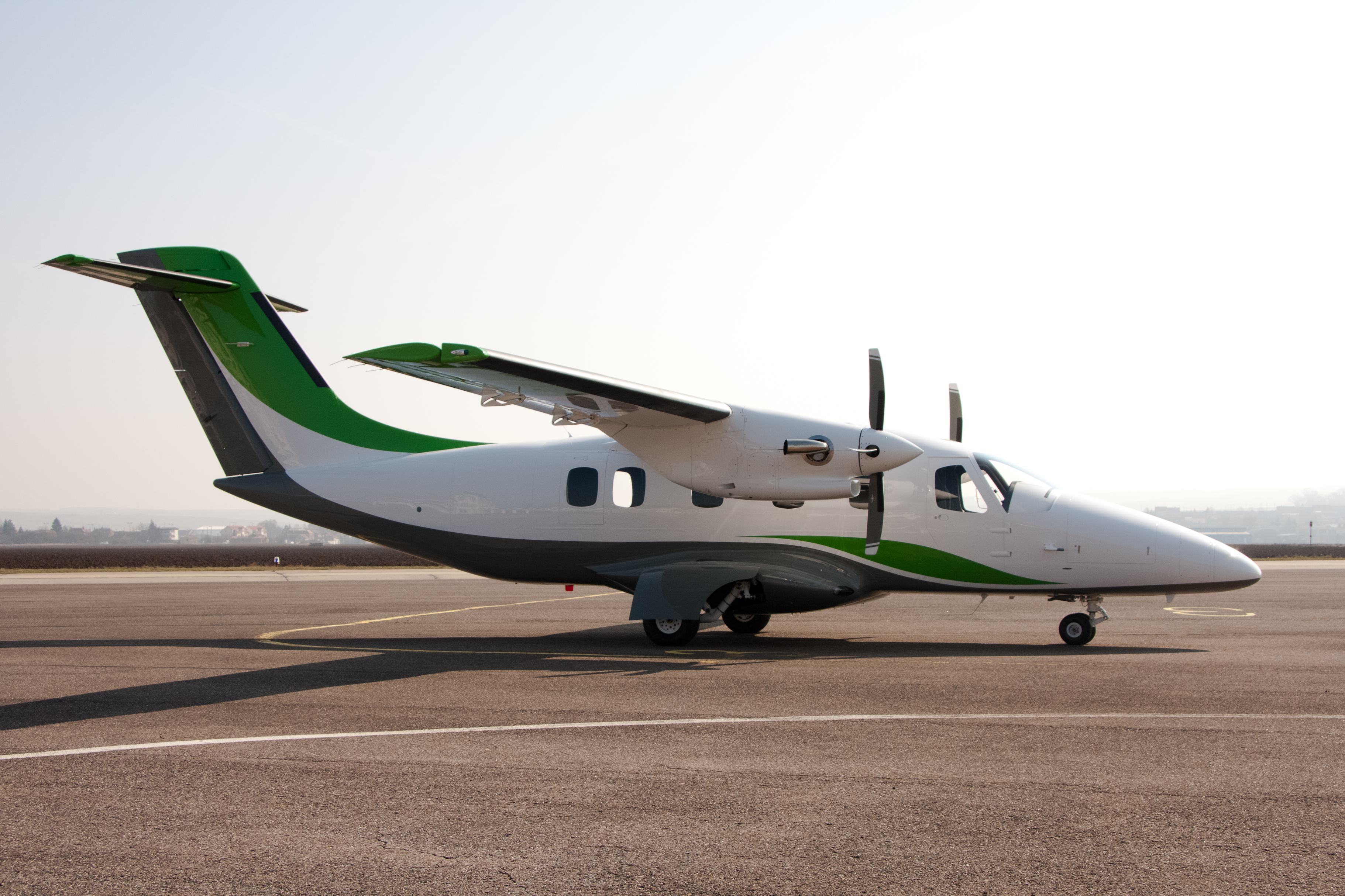 New utility aircraft EV-55 Outback designed by Evektor company. Česky: Nové letadlo EV-55 Outback vyvinuté společností Evektor